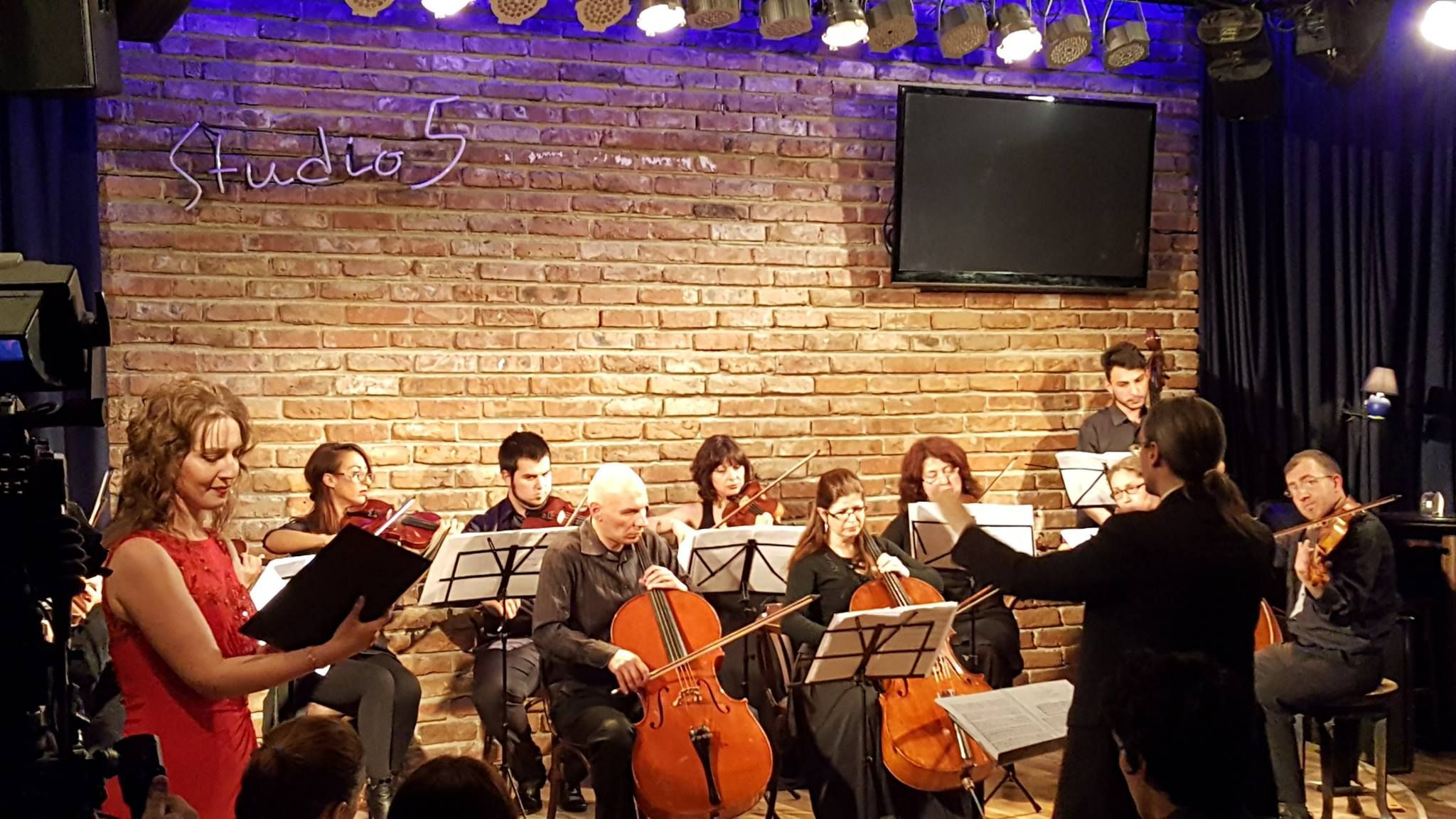 432 Chamber Orchestra in cocnert on 13 MArch 2015